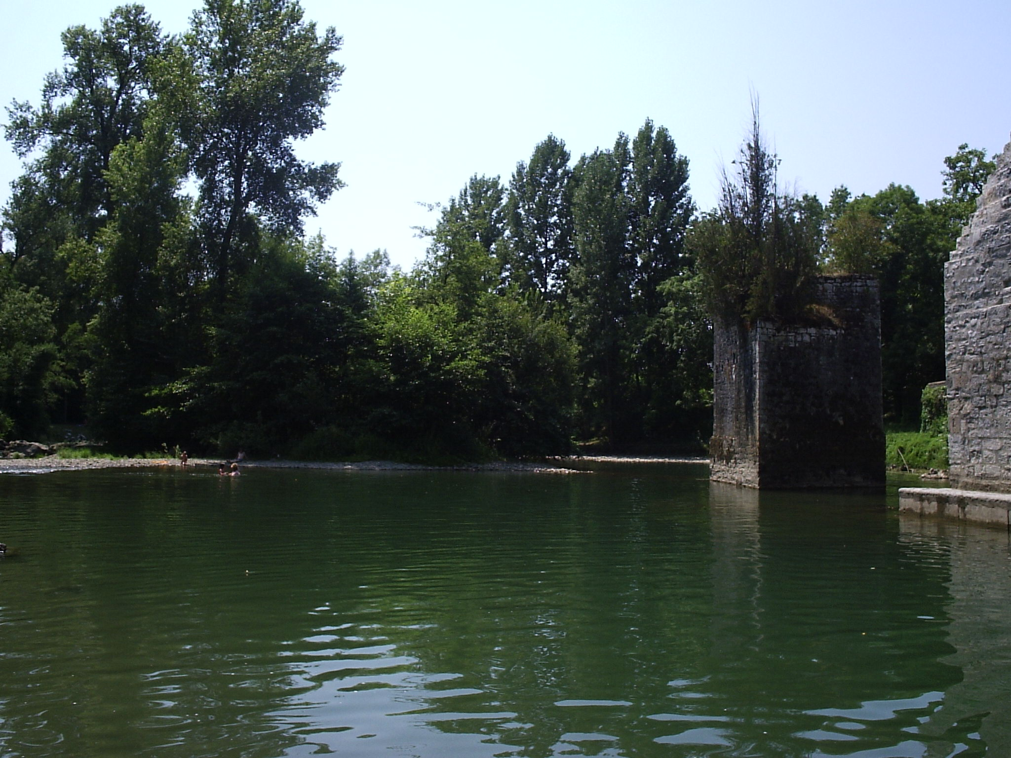 Author : Sebb Date : 07/2006 Description : Photo prise à